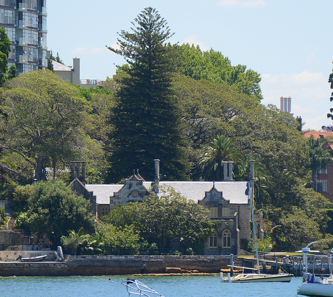 Carthona, Darling Point, Sydney (seen from Murray Rose Pool, Double Bay)